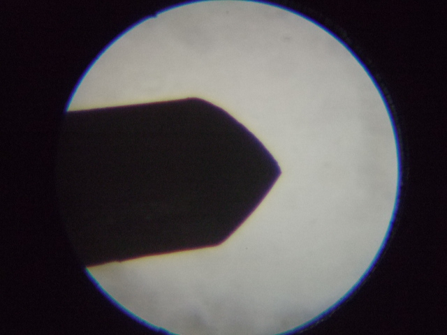 The mechanical pencil lead, after use with Kurutoga.(Taken with a x75 microscope and a Fujifilm FinePix F50fd camera.)